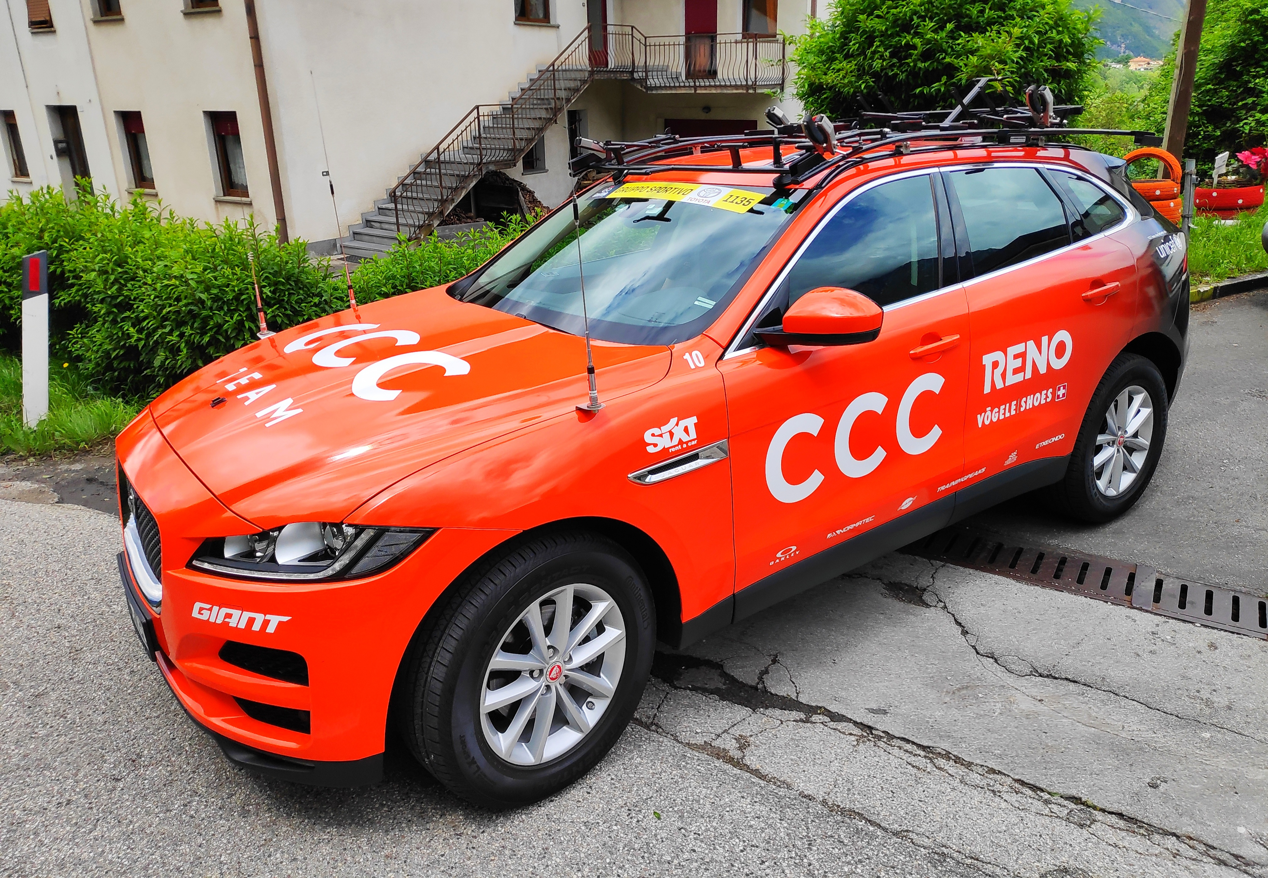 CCC Pro Team support car (2019 Giro d'Italia)